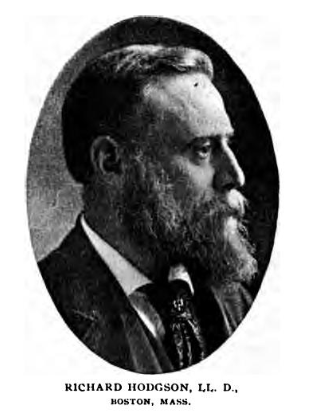 Photograph of the psychical researcher Richard Hodgson.